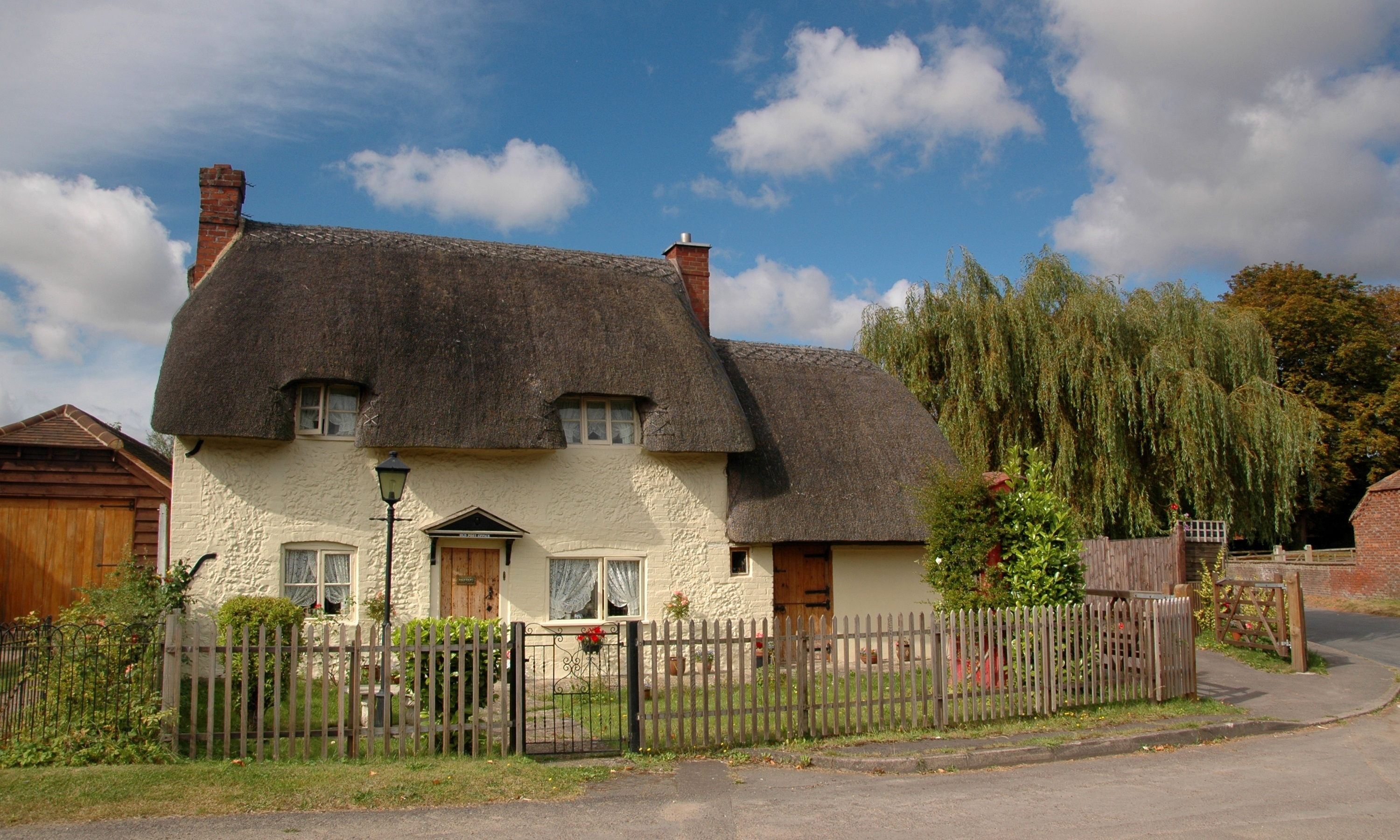 Sydenham, South Oxfordshire: former Post Office, viewed from the east